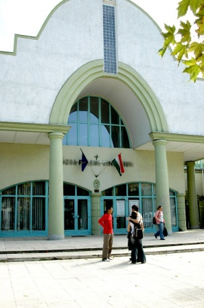 The main building of the high school